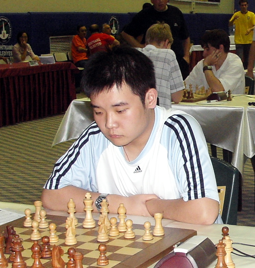 GM Li Chao People's Republic of China, World Junior Chess Championship, Gaziantep 2008